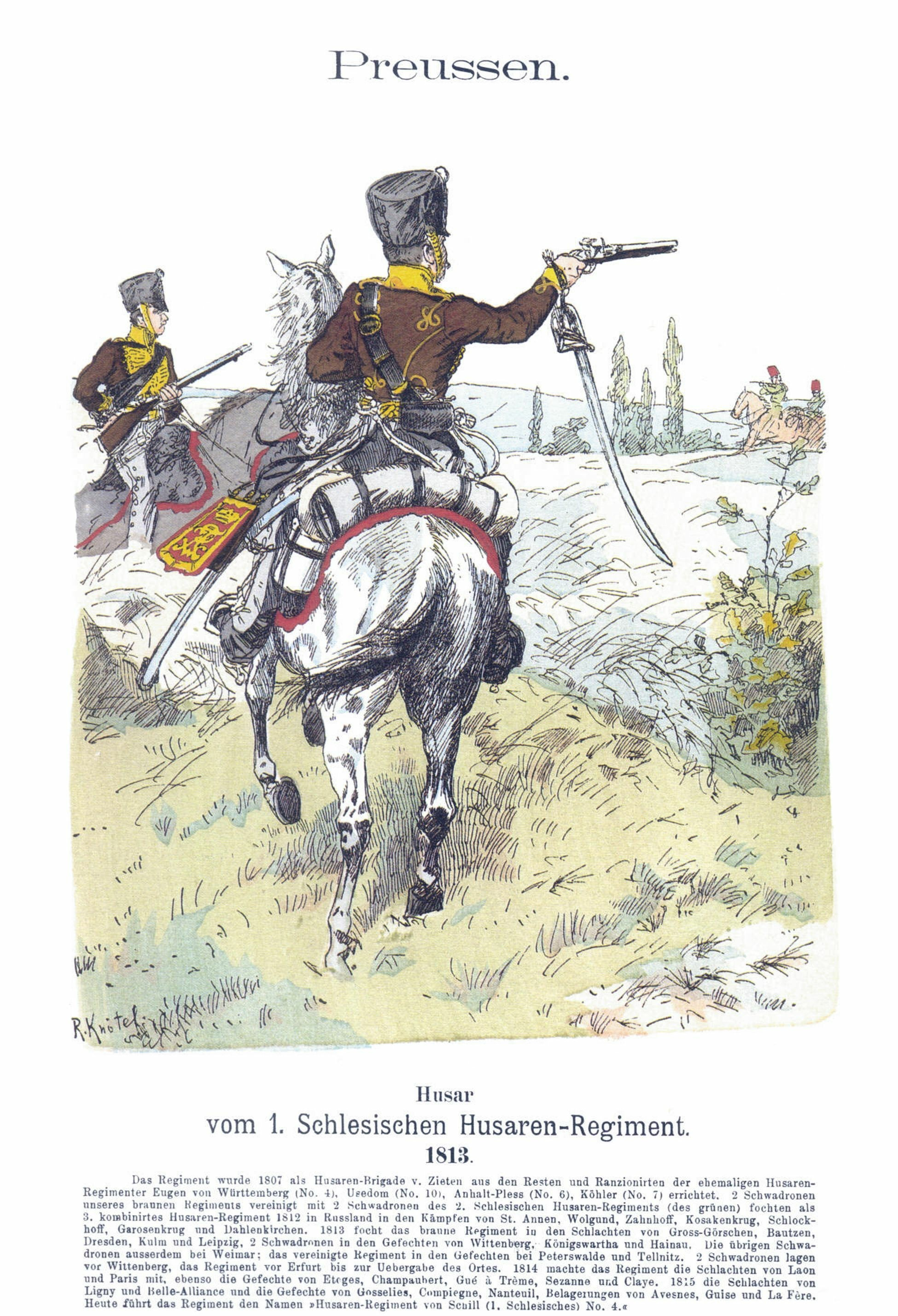 Preußen. Husar vom 1. Schlesischen Husaren-Regiment (Nr. 4). 1813